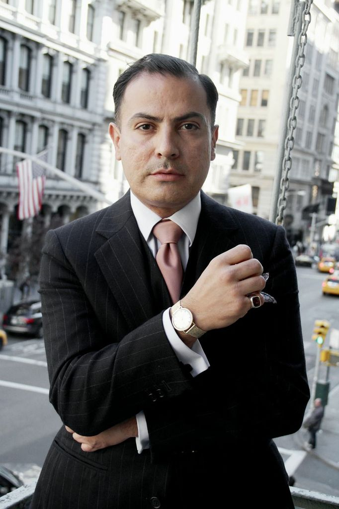 Craig Robinsin in New York City